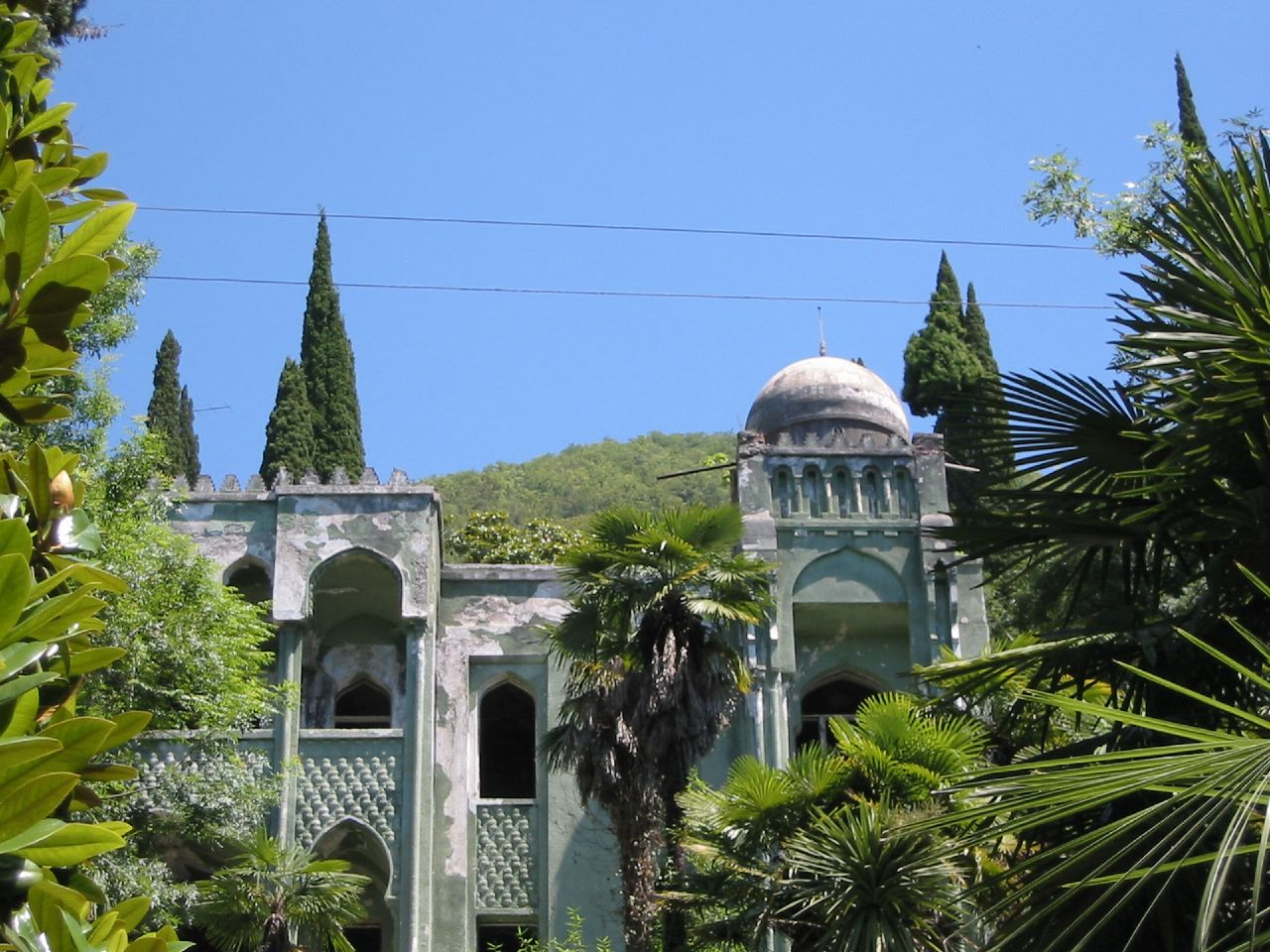 Houses in Gagra, Abkhazia